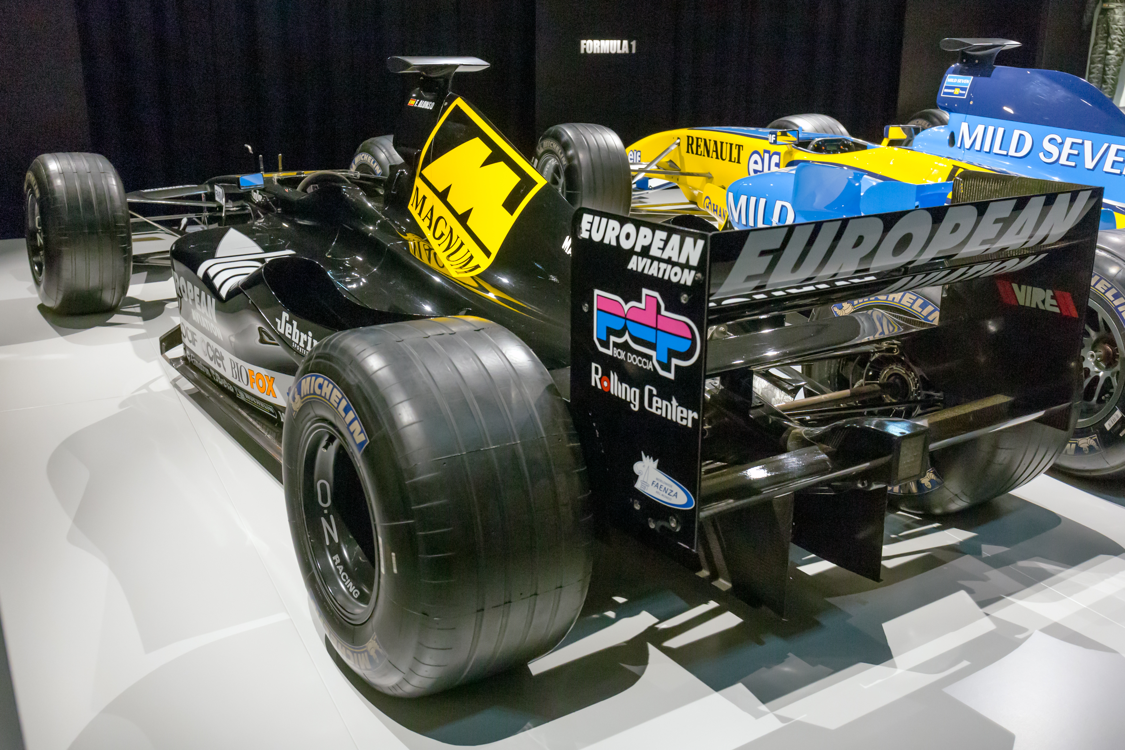 Museo y Circuito Fernando Alonso: 2001 Minardi PS01 of Fernando Alonso